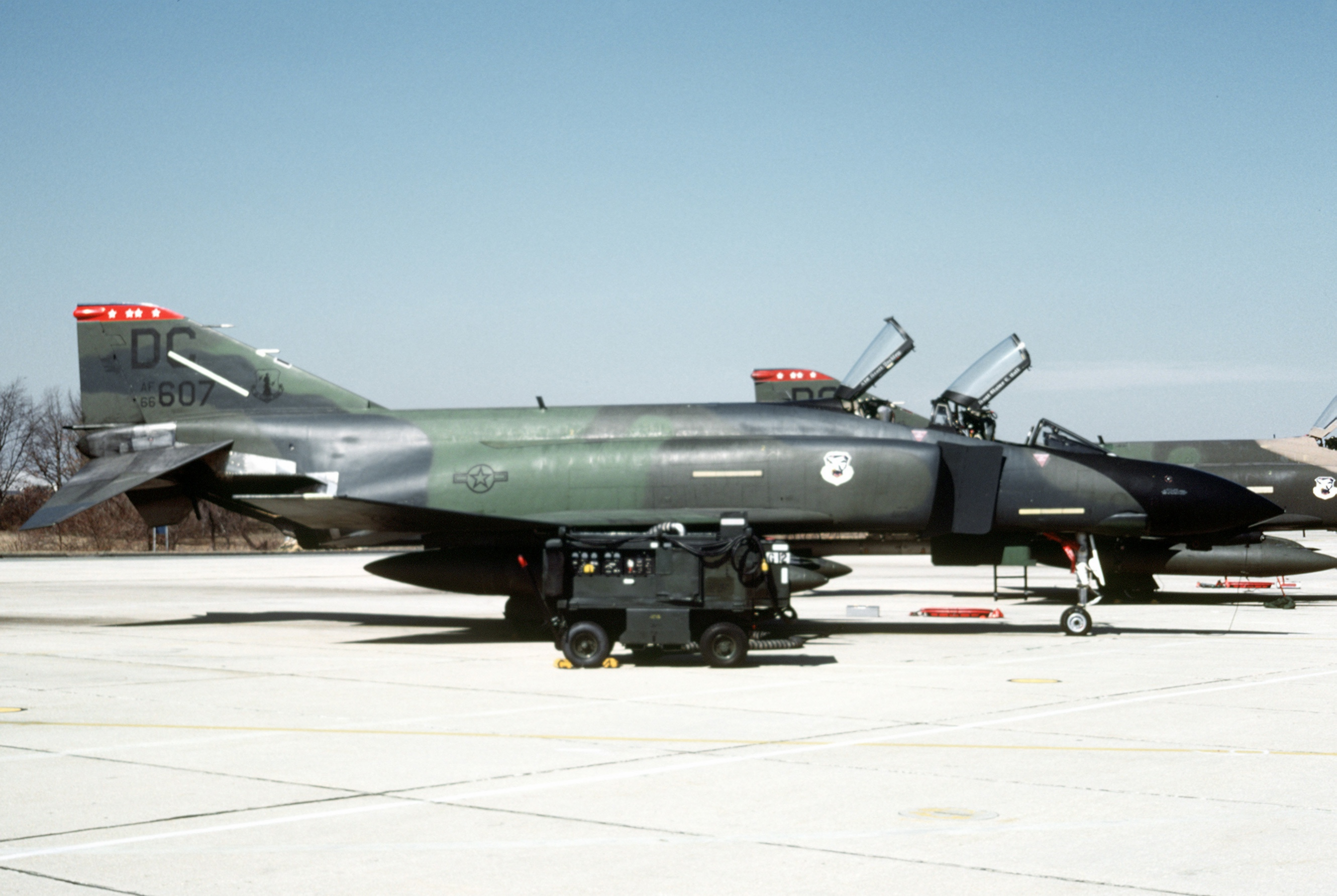 A U.S. Air Force McDonnell F-4D-30-MC Phantom II (s/n 66-7607) from the 121st Tactical Fighter Squadron, 113th Tactical Fighter Wing, District of Columbia Air National Guard, at Wright-Patterson Air Force Base, Ohio (USA), on 7 March 1987.